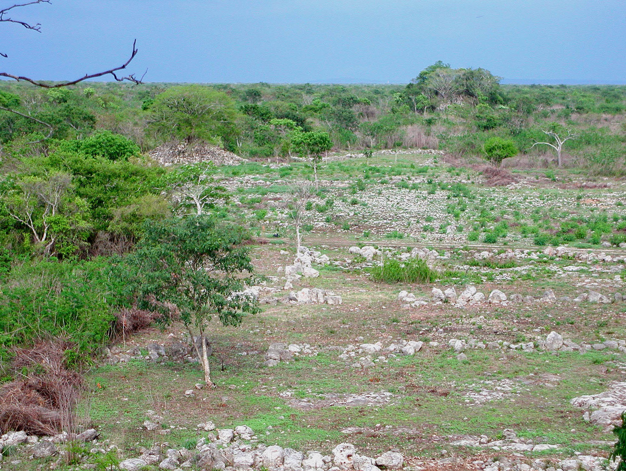 View of possible market area in the site center of Chunchucmil, Yucatan, Mexico.